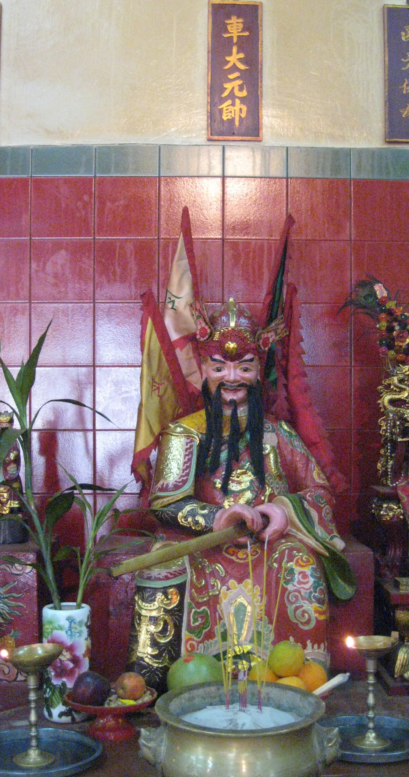 Statue of Chegong/Che Kung in Tin Hau Temple of Stanley (赤柱天后廟)